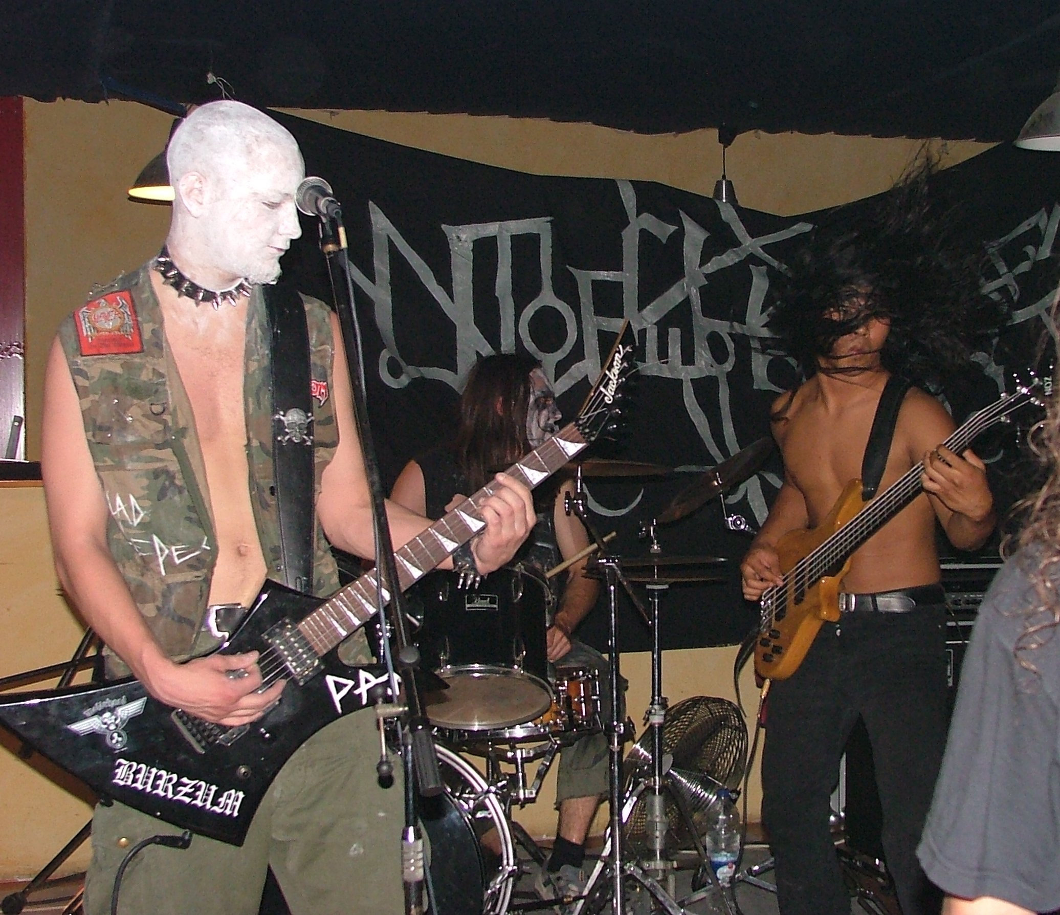 French band, Peste Noire in live (first show, in Toulouse, Fr)